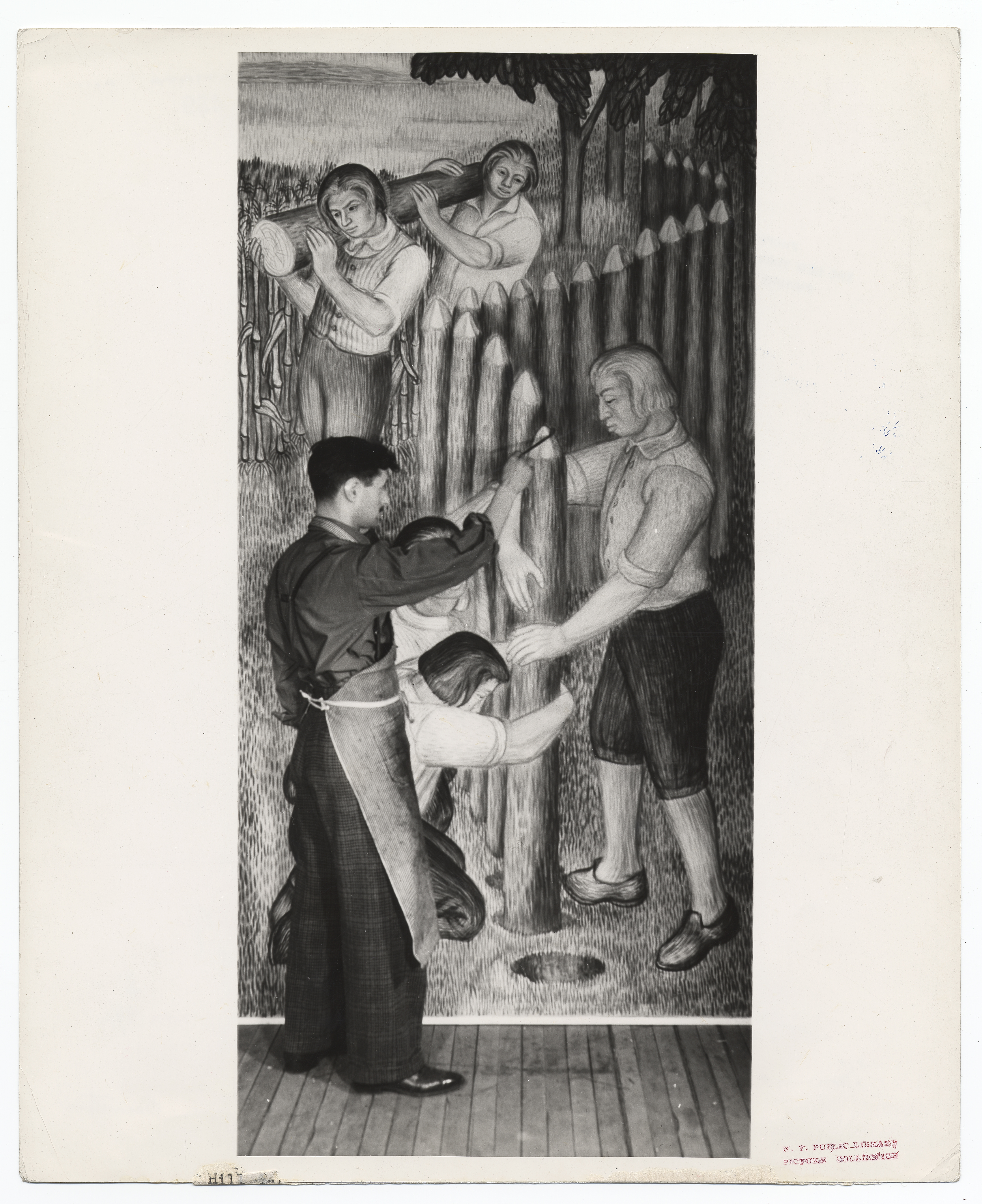 Horr working on a panel for a muralIdentification on verso, left (handwritten and typed): "Economic Development of America"; Artist: Axel Horr; Medium: Egg Tempera. Identification on verso, right (handwritten and stamped): Federal Art Project W.P.A.; Photographic Division; 13 East 37th St.; New York City; Location: Farm Colony; Date: 3/26/37; Negative No.: P.639A; Photographer: Bernstein.